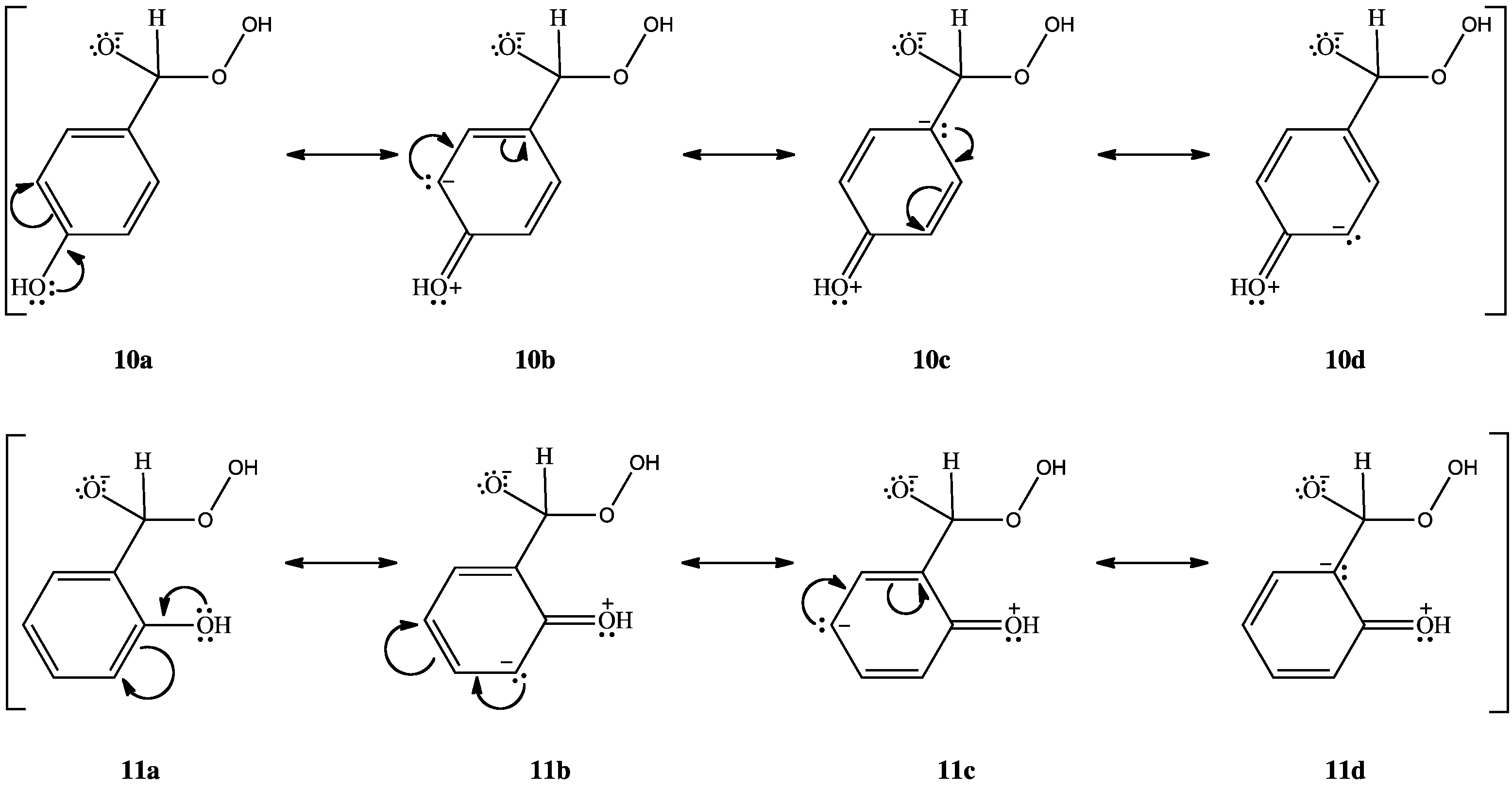 Resonance structures for ortho- and para-hydroxy phenyl aldehydes and ketones.